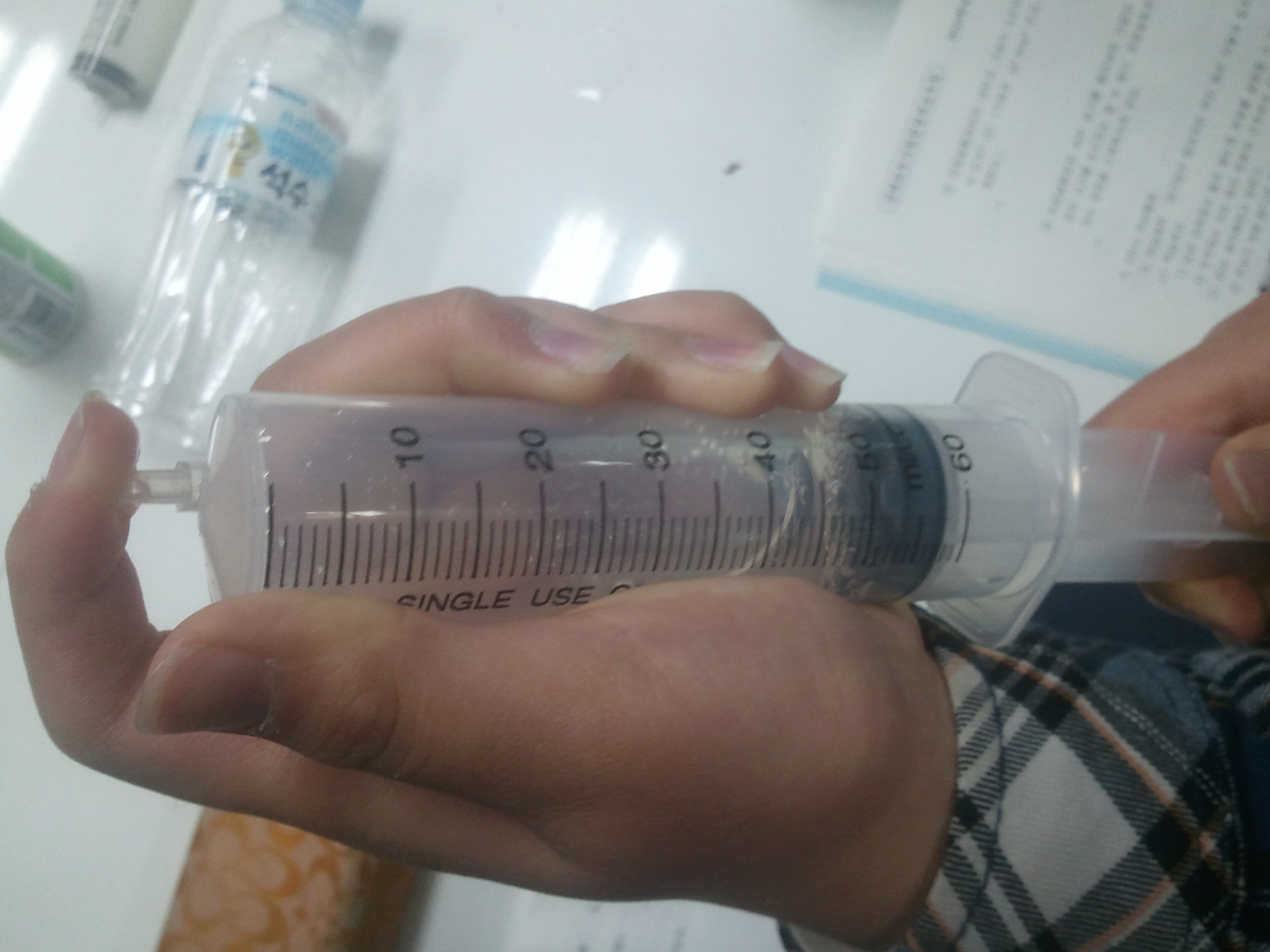 A needleless syringe for scientific experiments.